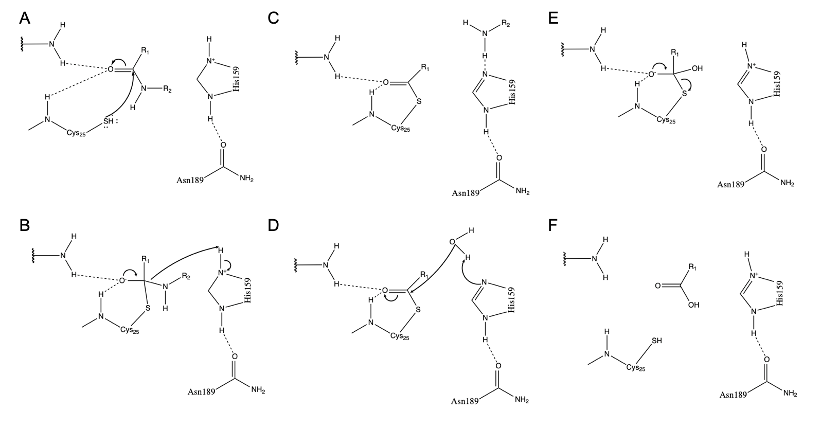 ChemDraw created mechanism of zingibain's proteolysis